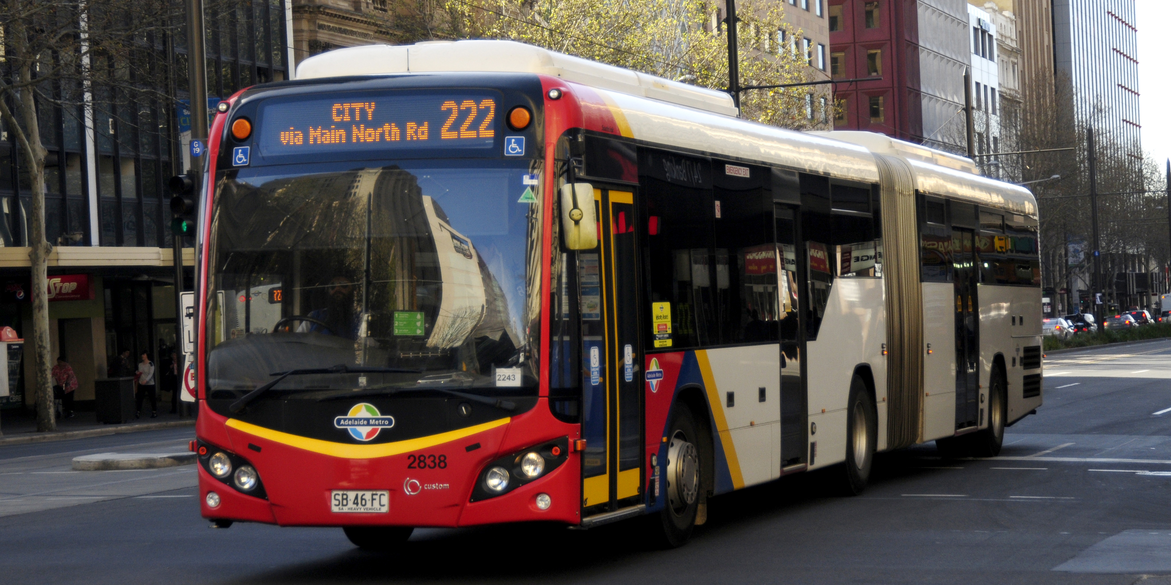 SouthLink Custom Coaches CB80 bodied Scania K320UA (Fleet no. 2838) of route 222 (to City) on King William Street.